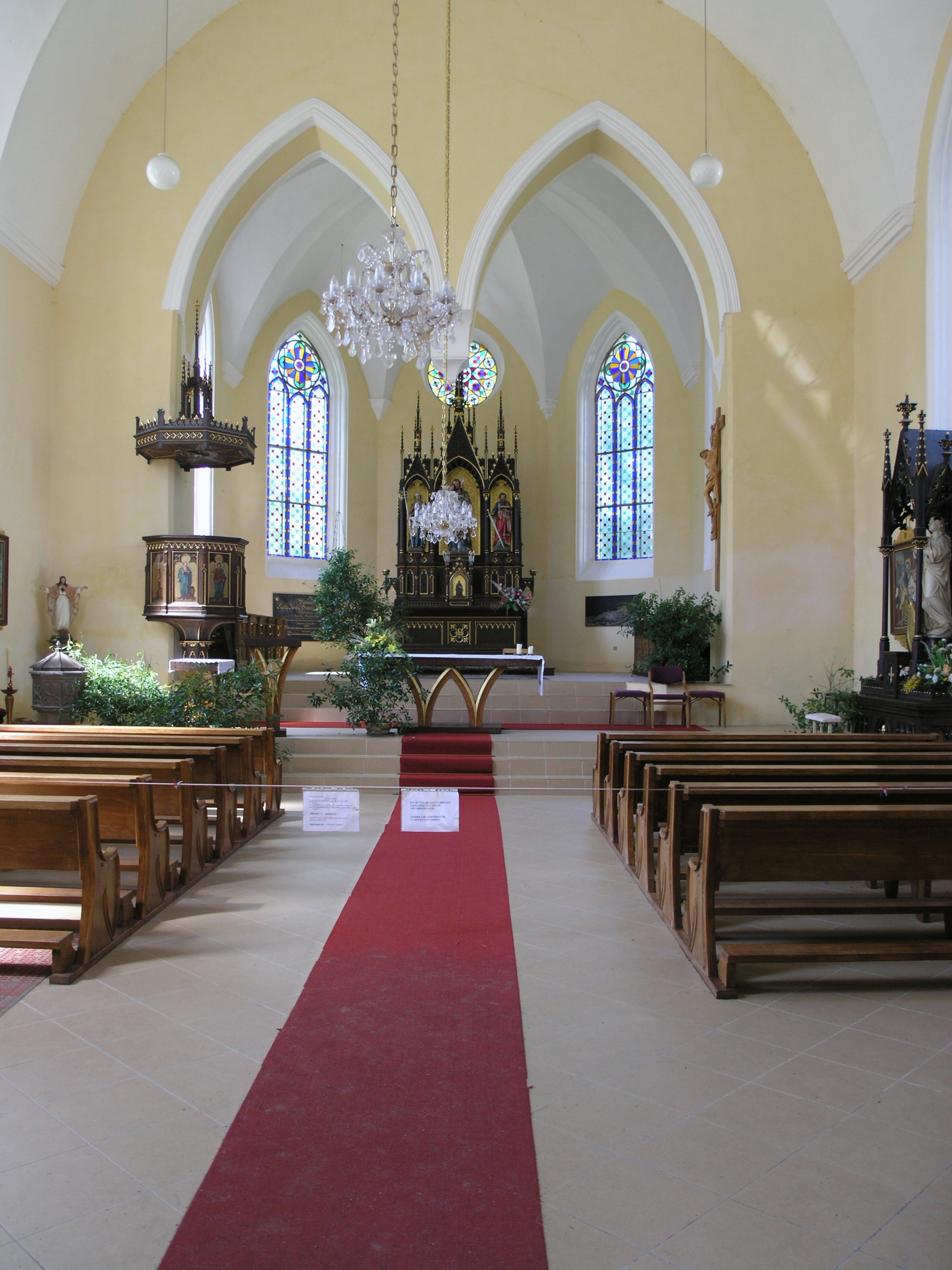 Church of Saint Joseph (Hrubá Skála)